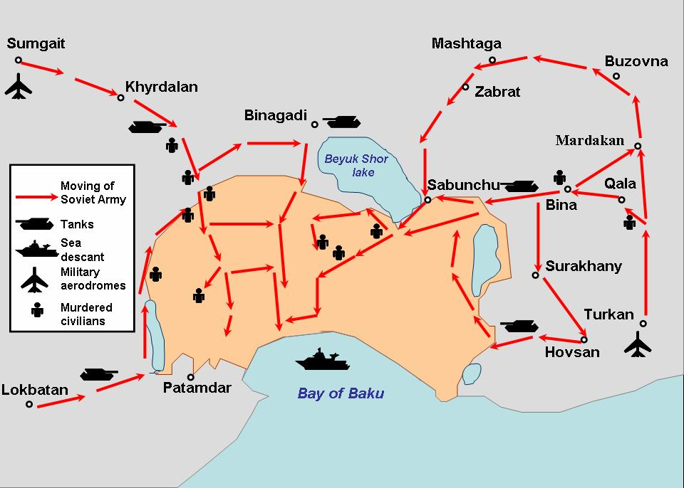 Invasion of Soviet Army in Baku (English). 20 January 1990